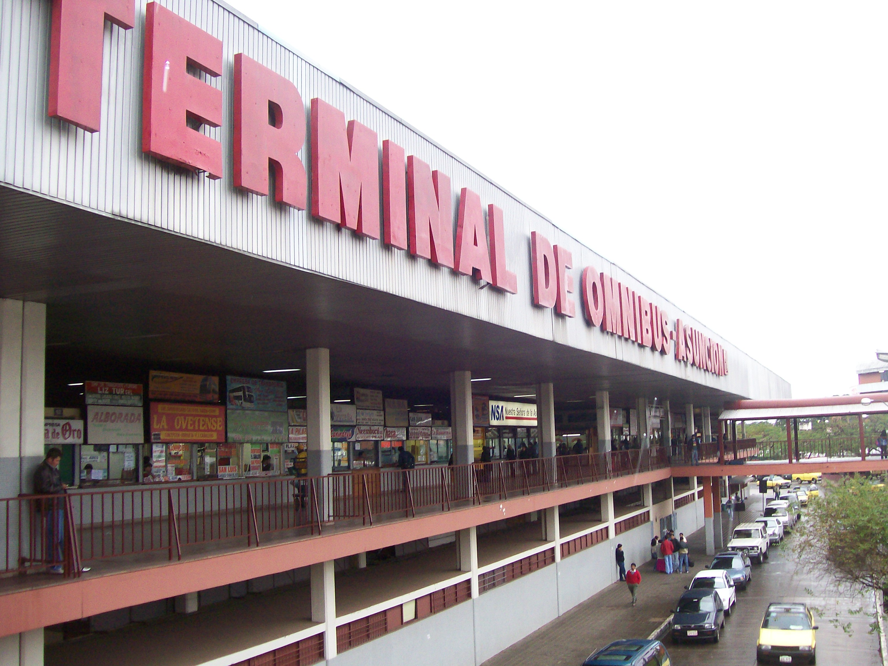 Bus terminal in Asuncion.